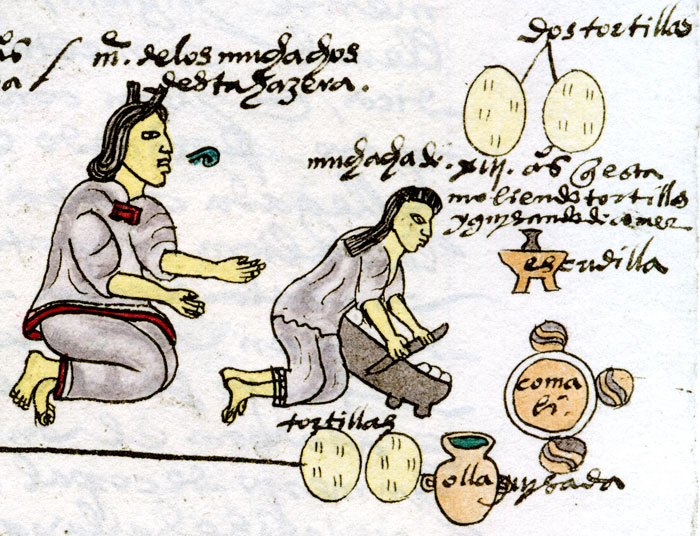 Detail of the Codex Mendoza's folio 60r showing a mexica mother teaching her 13-year-old daughter to make tortillas (cf. Michael E. Smith, The Aztecs, p.62).